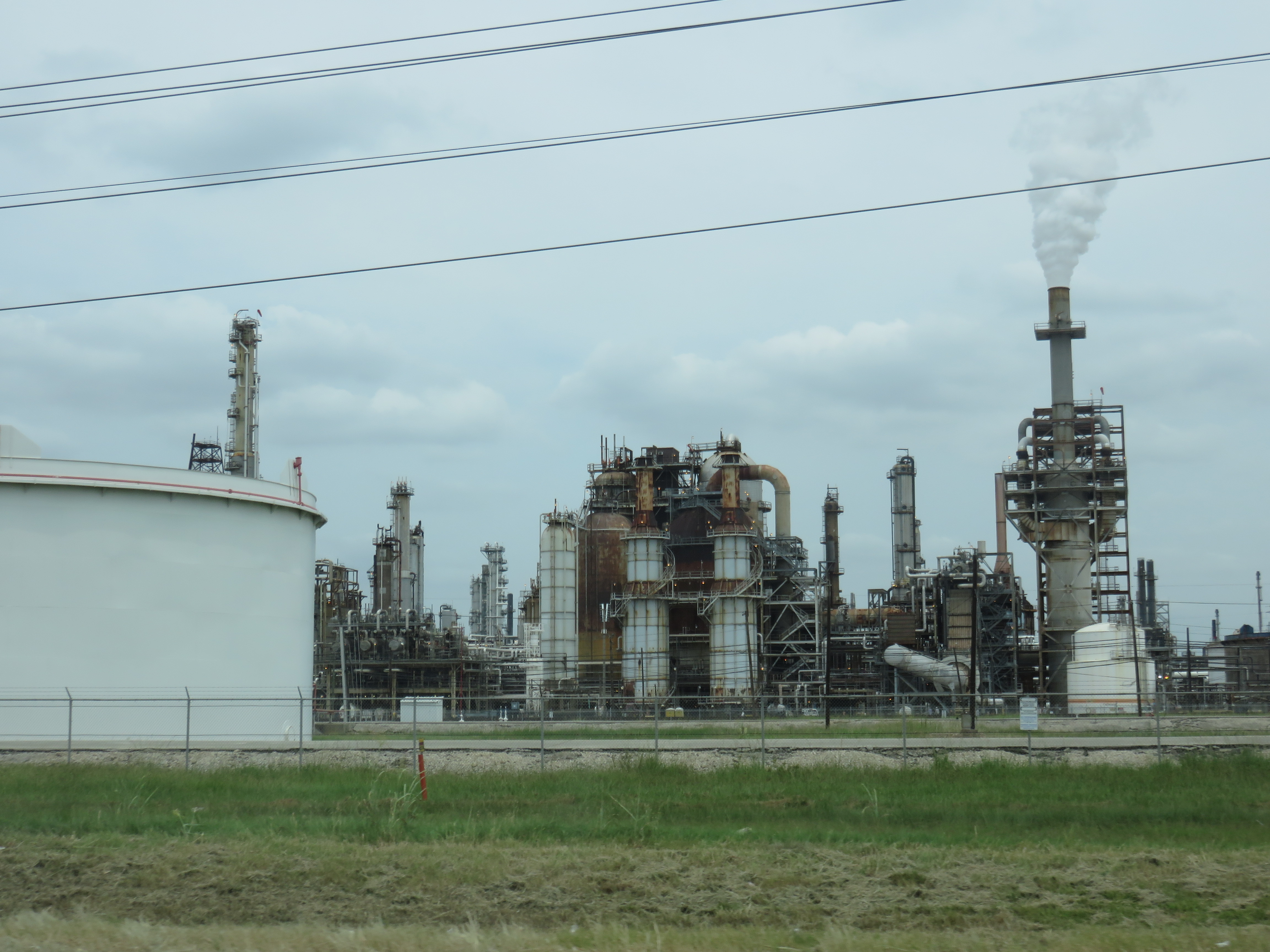 LyondellBasell Oil refinery in Meadowbrook/Allendale, Houston, Texas in 2018